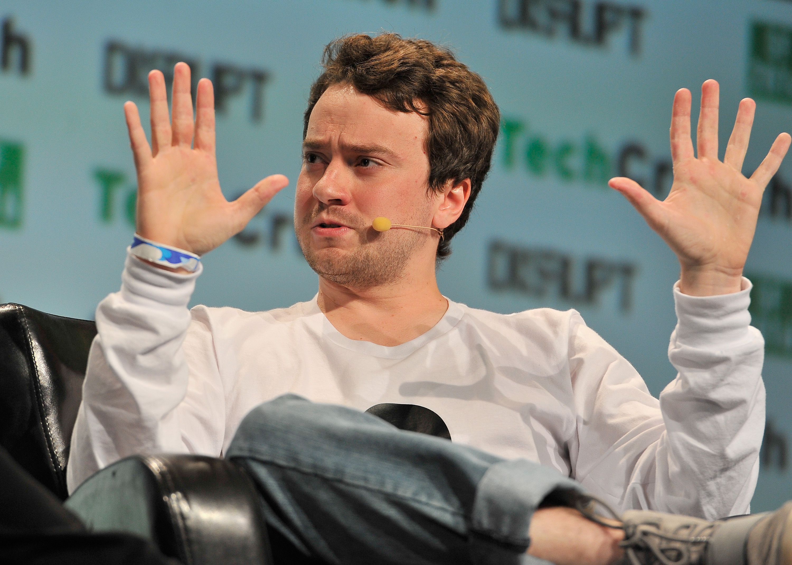 speaks onstage during TechCrunch Disrupt SF 2016 at Pier 48 on September 13, 2016 in San Francisco, California.